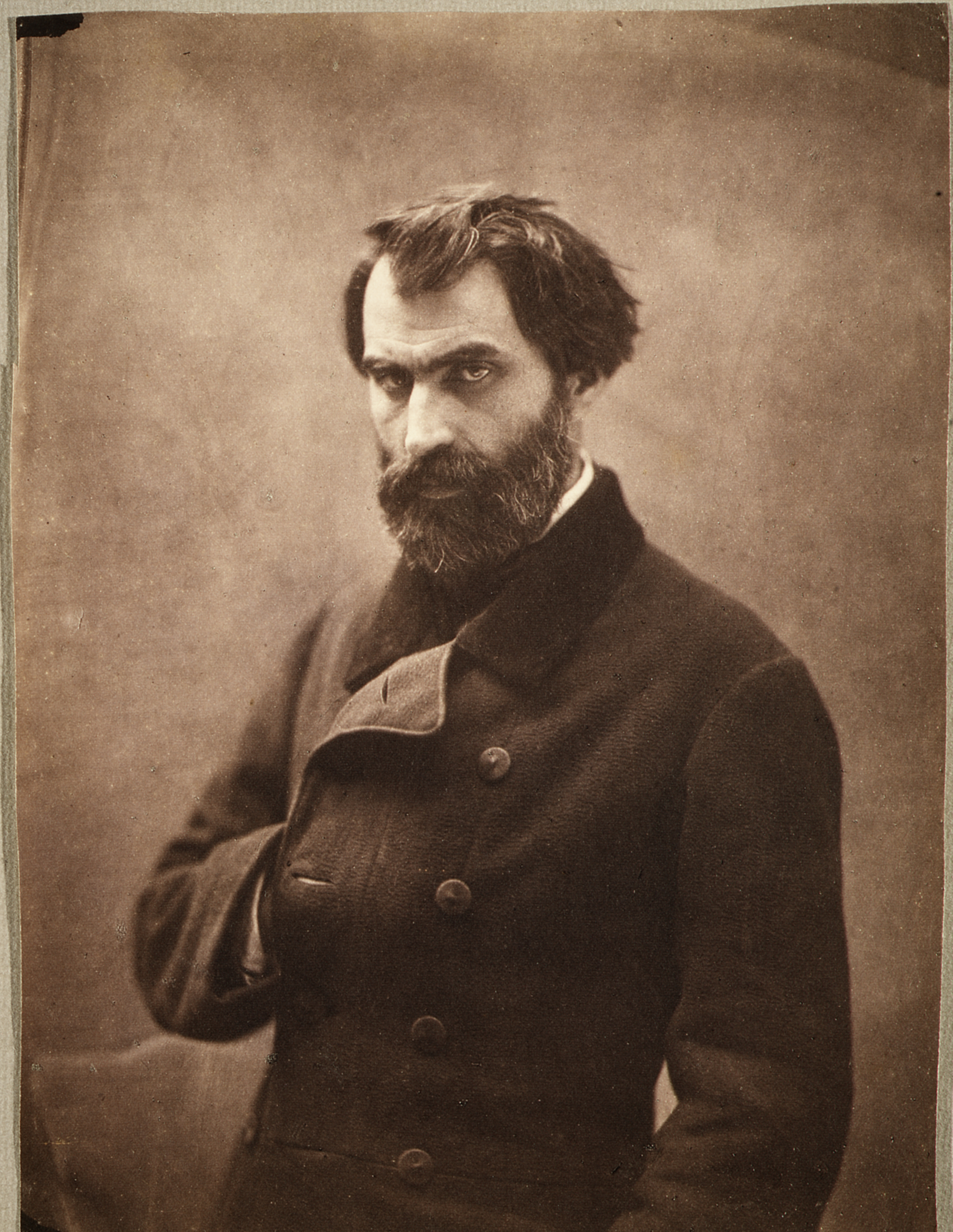 Image of Eugène Pelletan (1813-1884), French journalist, writer and politician